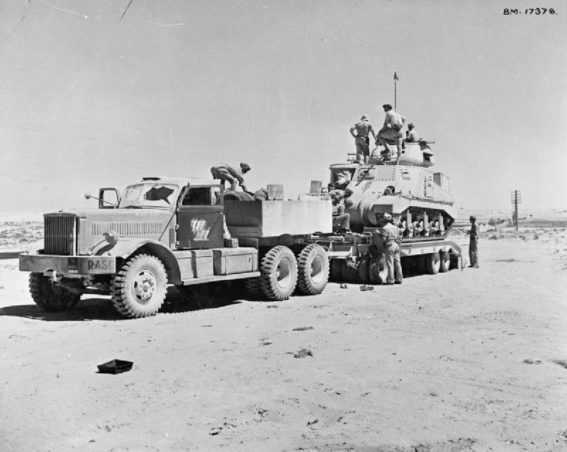 The British Army in North Africa 1942 A Grant tank loaded onto a Diamond T transporter, 13 August 1942.